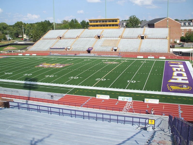 self-made file